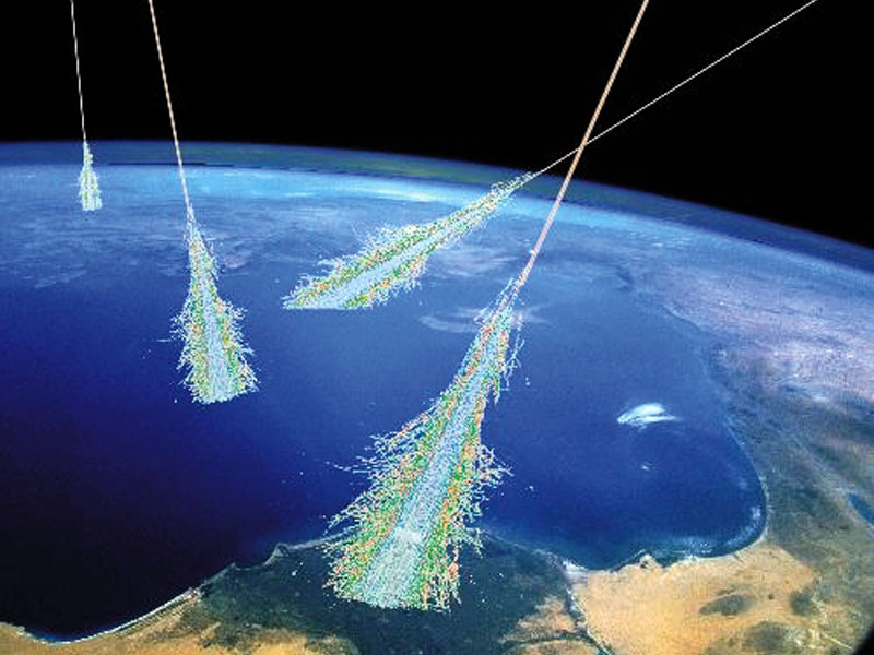 It is now known that most cosmic rays are atomic nuclei. Most are hydrogen nuclei, some are helium nuclei, and the rest heavier elements. The relative abundance changes with cosmic ray energy -- the highest energy cosmic rays tend to be heavier nuclei. Although many of the low energy cosmic rays come from our Sun, the origins of the highest energy cosmic rays remains unknown and a topic of much research. This drawing illustrates air showers from very high energy cosmic rays.